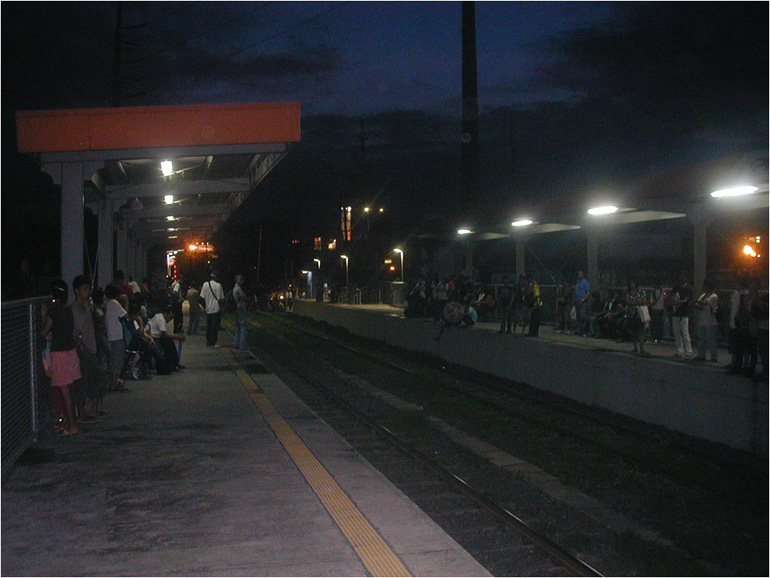 Self taken on Paco station. Tagalog: Ito ay kuha ko sa Paco station.